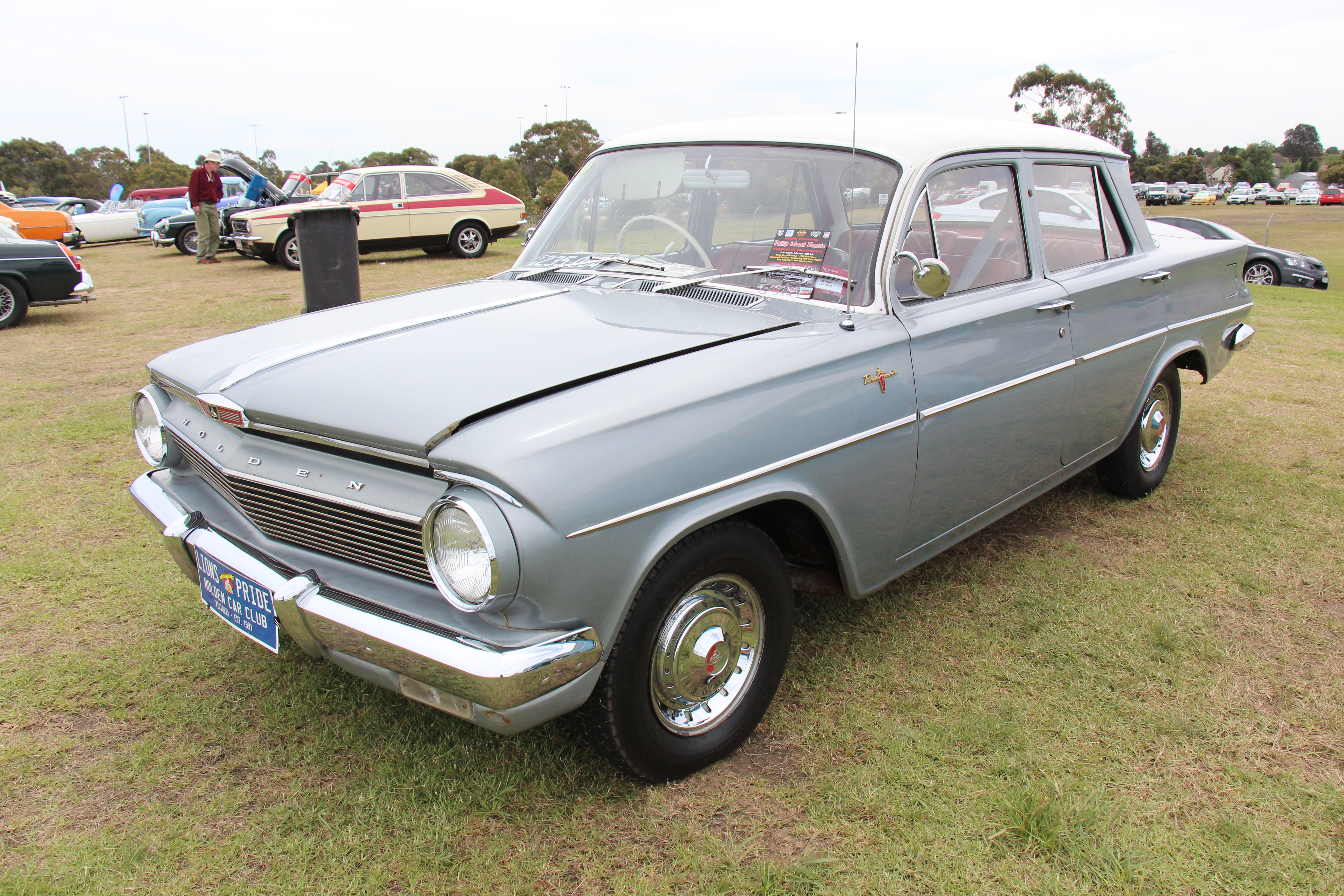 Theatre Grey with a Atherton Ivory roof. The EJ Holden was built from July 1962-August 1963. The styling of the EJ was a radical departure from that of the EK, the EJ had quite a low silhouette, the roofline was over 3 inches lower and extended beyond the back window forming a 'cap' effect, the rear fins were gone, it had a lower, flatter bonnet and boot. The old Grey 6 cyl was just the same, but brakes and suspension were improved. 3 models were now available; Standard; rubber floor mats and single tone paint. Special; stainless steel side moulds, two tone paint option The new top of the line Premier; only available in an auto, it got a leather interior, bucket seats, console in the front, pull down armrest in the back and an AM radio. Outside it got special wheel trims , extra chrome and Gold Premier badges. Engine; 75 hp 138 cu in grey 6 cyl Sedan; Standard, Special or Premier Wagon; Standard or Special also Utility and Panel Van